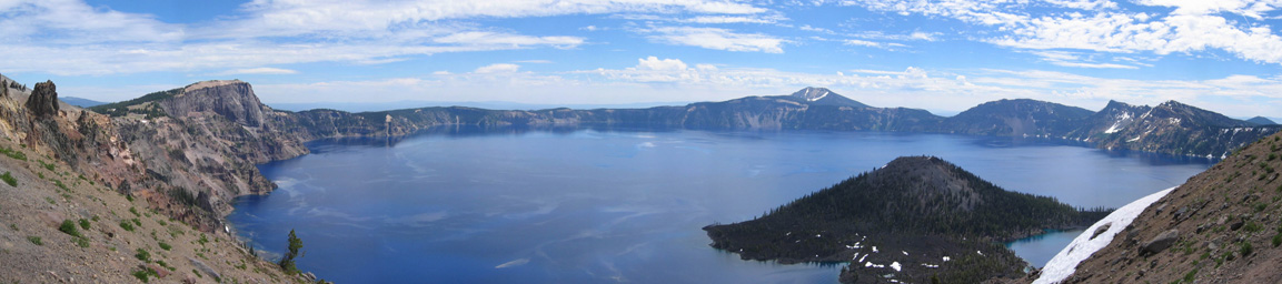 Crater Lake